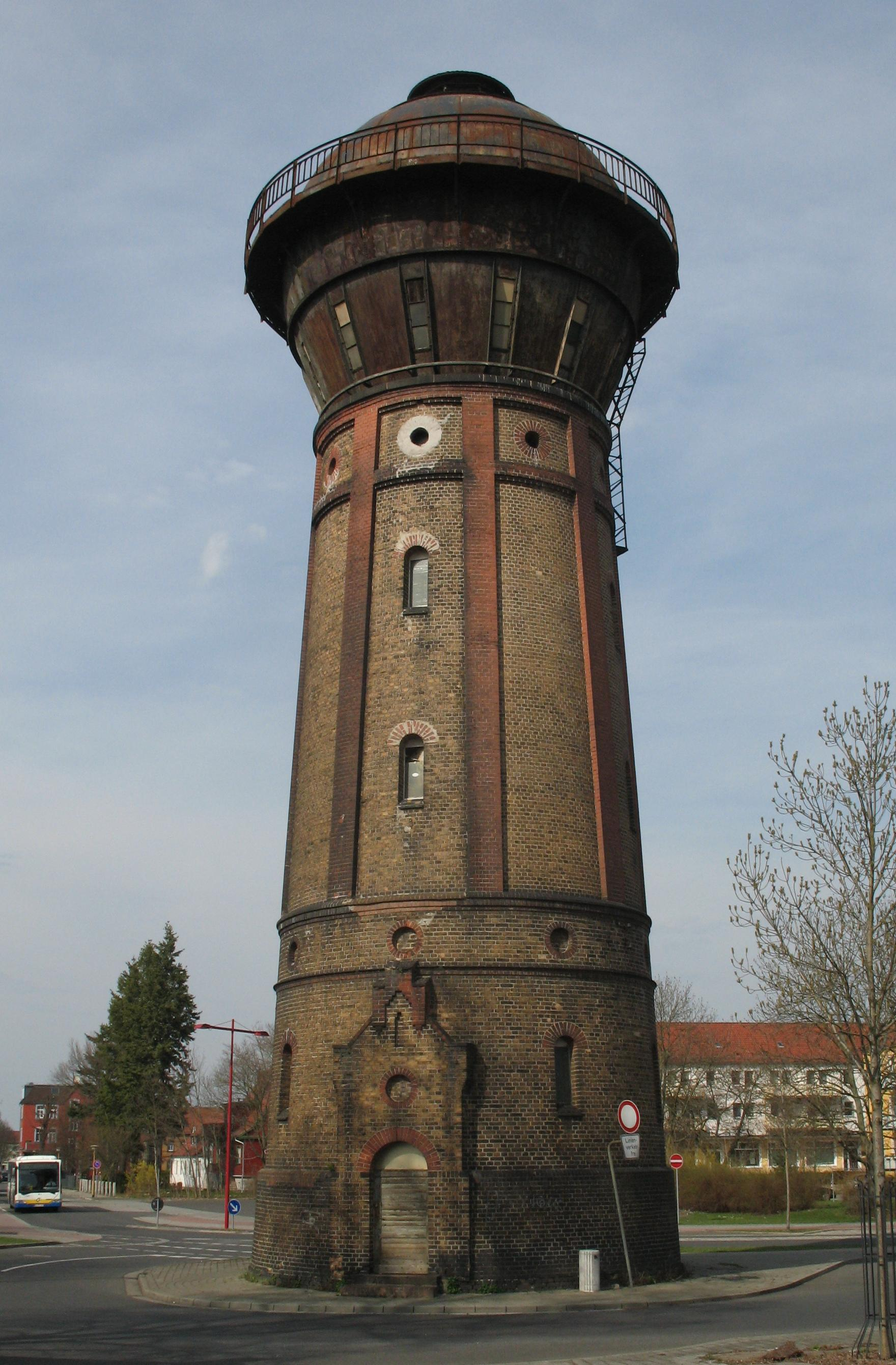 Water tower in Hoyerswerda in Saxony, Germany